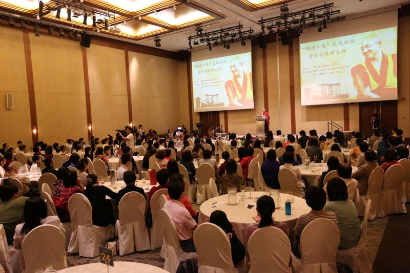 Lecture at NUS by Khenpo Sodargye